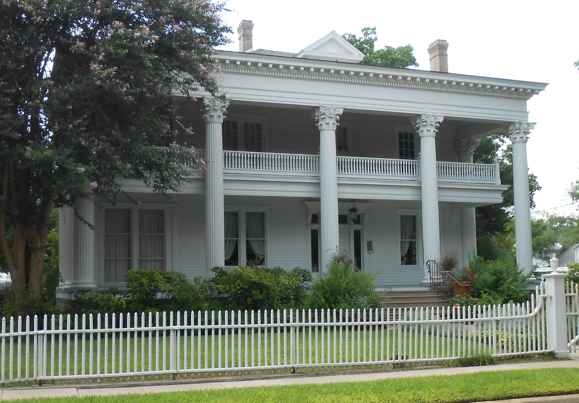 Pickering House, 403 N. Glass Street, Victoria, Texas